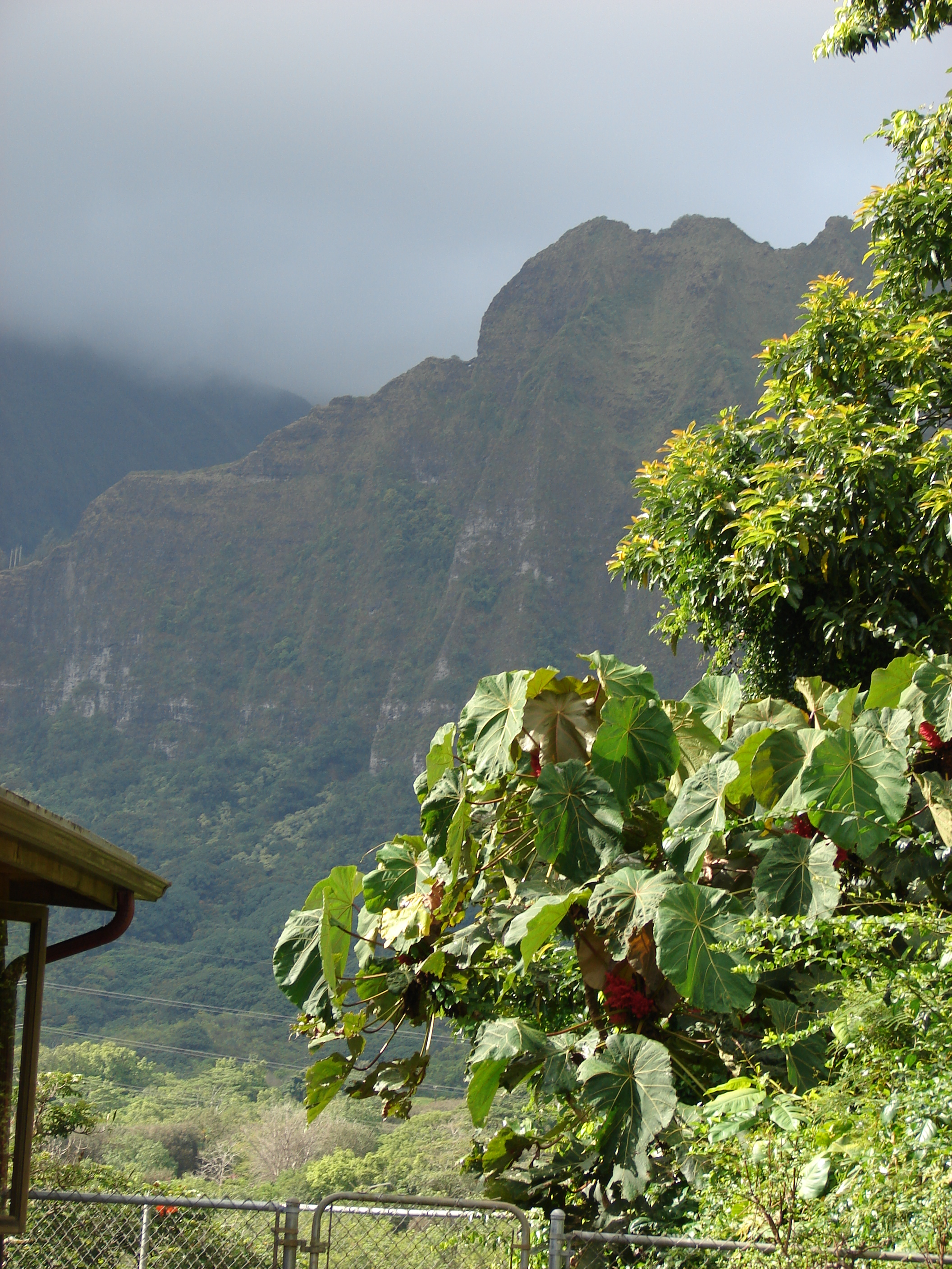 Macaranga mappa (habit). Location: Oahu, Kaneohe